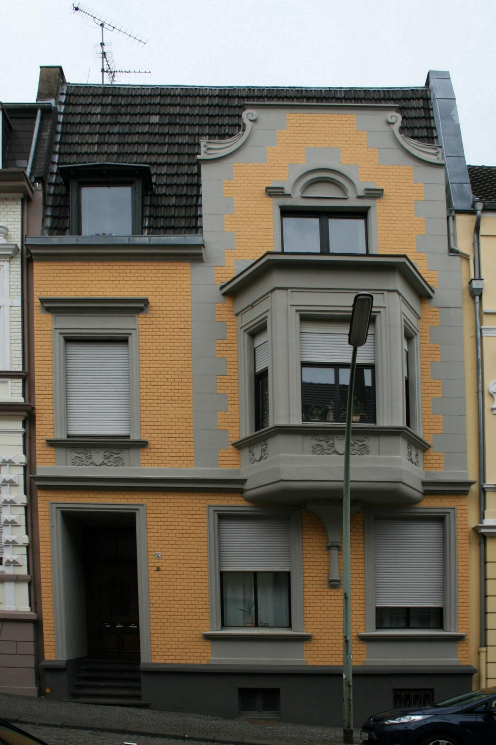 Cultural heritage monument No. B 012 in Mönchengladbach